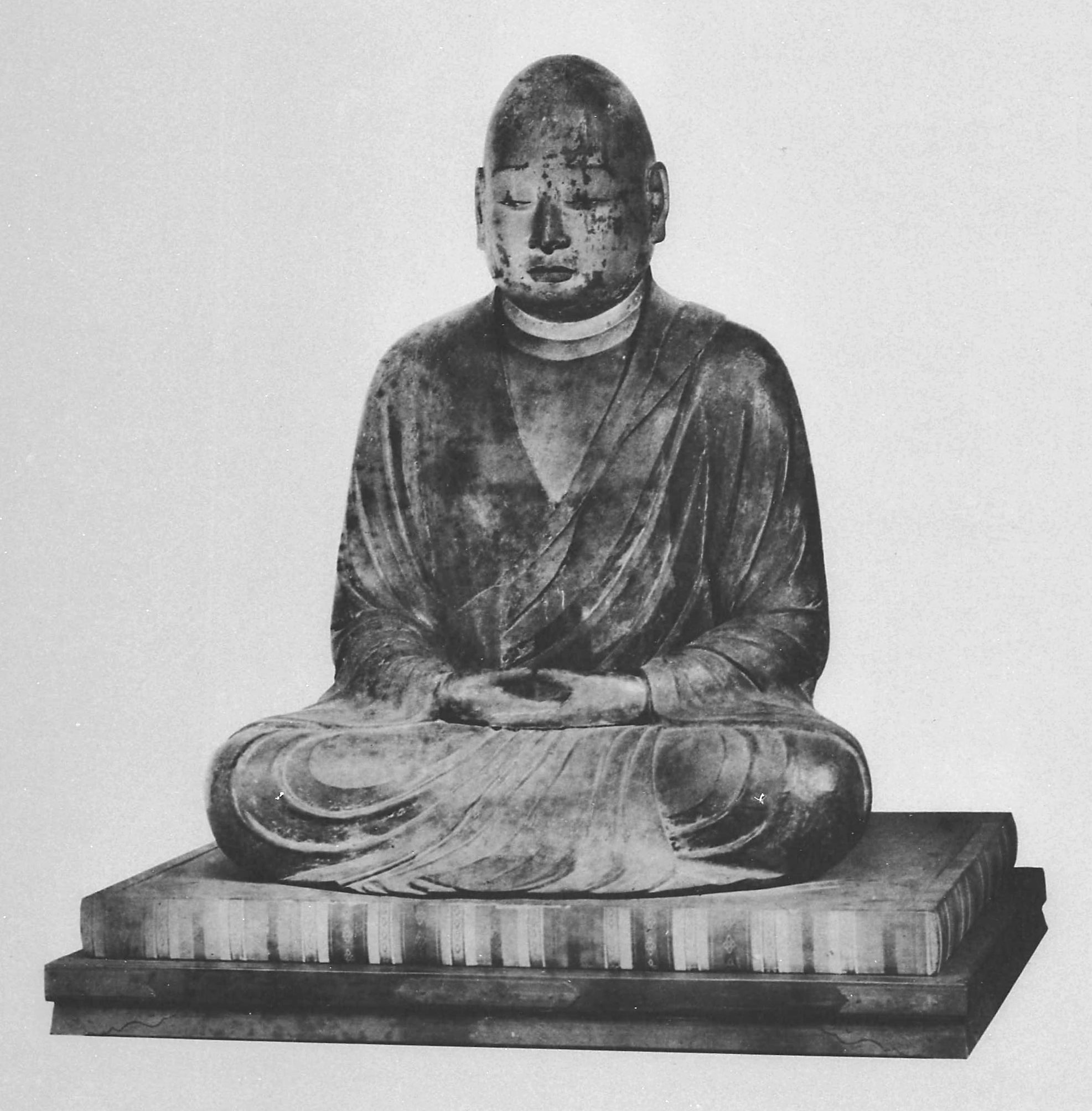 The sculpture of Chishō Daishi (Enchin) of Onjō-ji, Ōtsu, Shiga prefecture, as known as Chūson Daishi. A National Treasure of Japan.